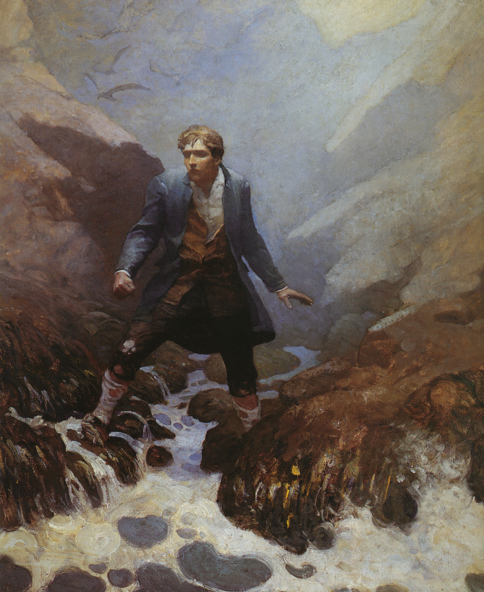 On the Island of Earraid, oil painting by N. C. Wyeth, 1913, 40 x 32 inches (see details here [1])